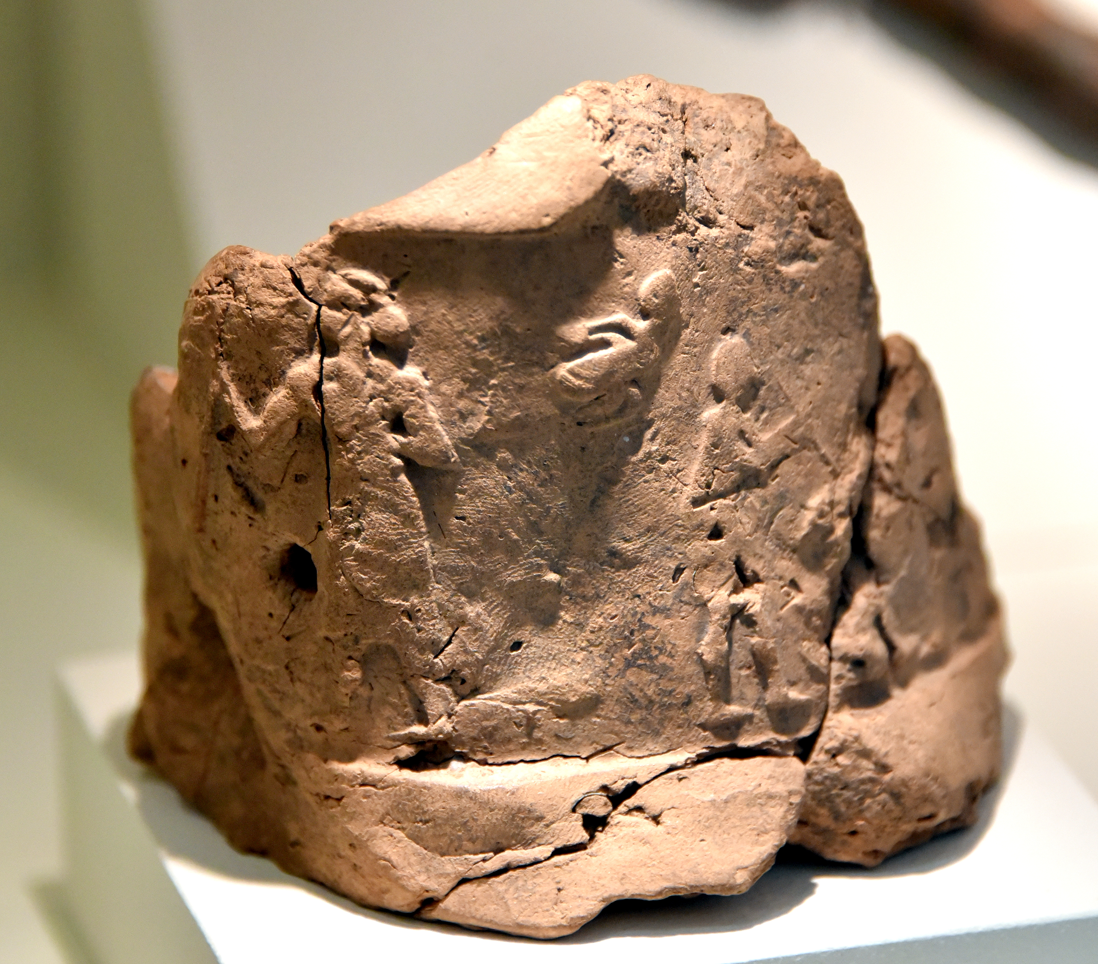 A surviving fragment of a clay vessel closure depicting a detail of a seal unrolling. Two figures can be seen, which presumably represent rulers and prisoners. Mid-4th millennium BCE. From Uruk (Warka), Iraq. On display at the Pergamon Museum in Berlin, Germany.